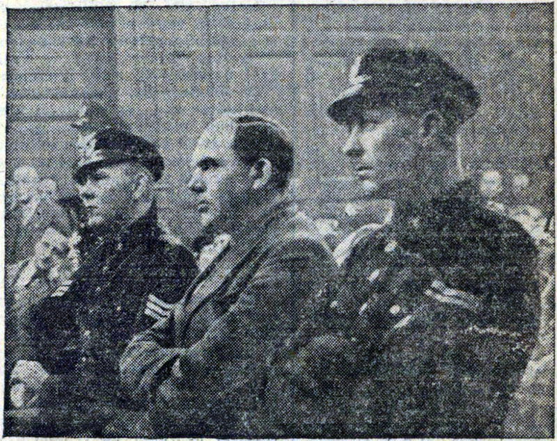 SD-Untersturmführer Heinrich Ludwig Heinemann (1911-1947) during his trial in December 1946. His nickname was 'The Beast of Zutphen'. He was found guilty and sentenced to death for killing 40 people. His request for pardon was rejected by the Queen. On February 10, 1947, his execution took place in the city of Arnhem in the Netherlands.